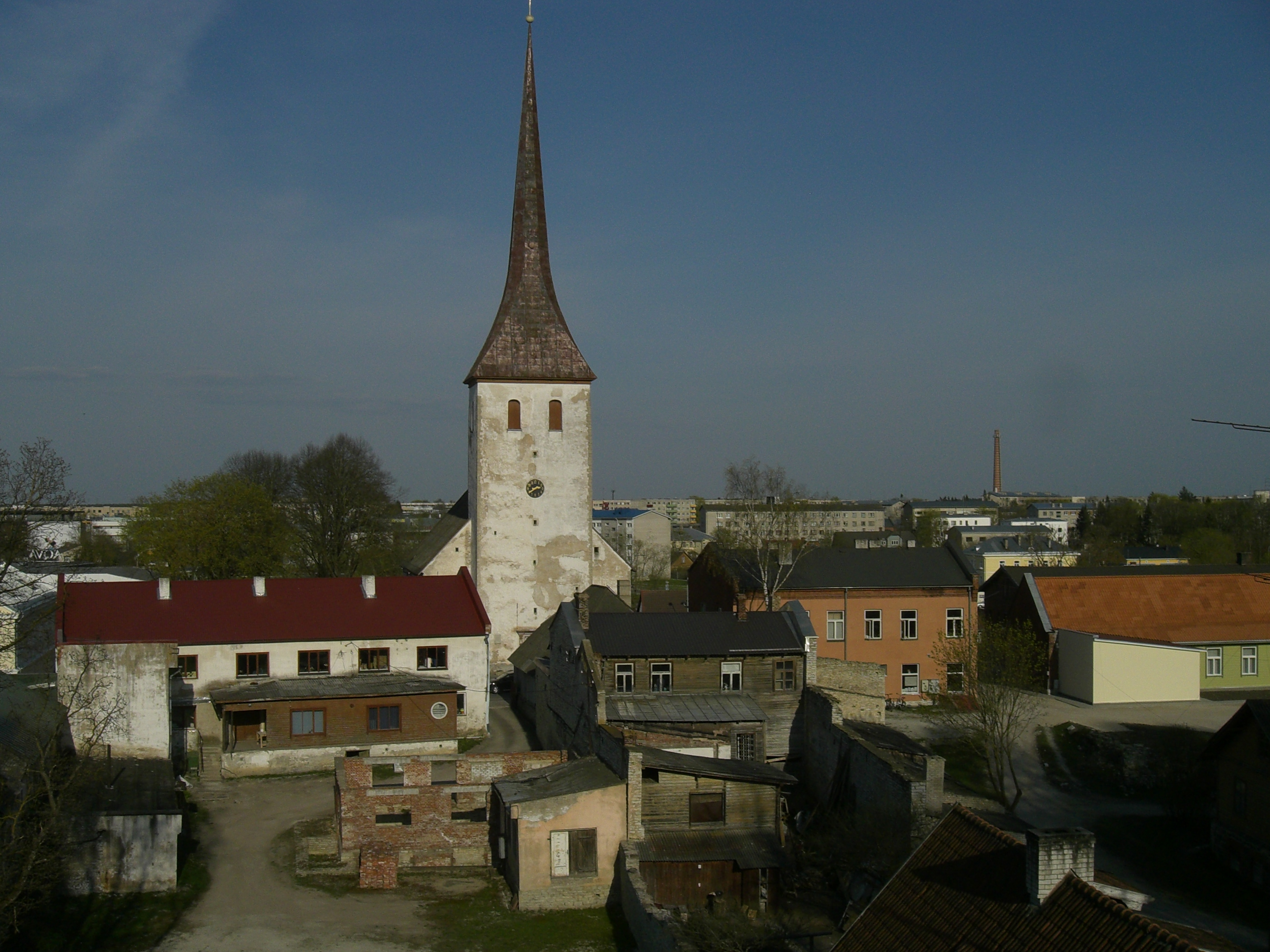 Rakverke town, Estonia.